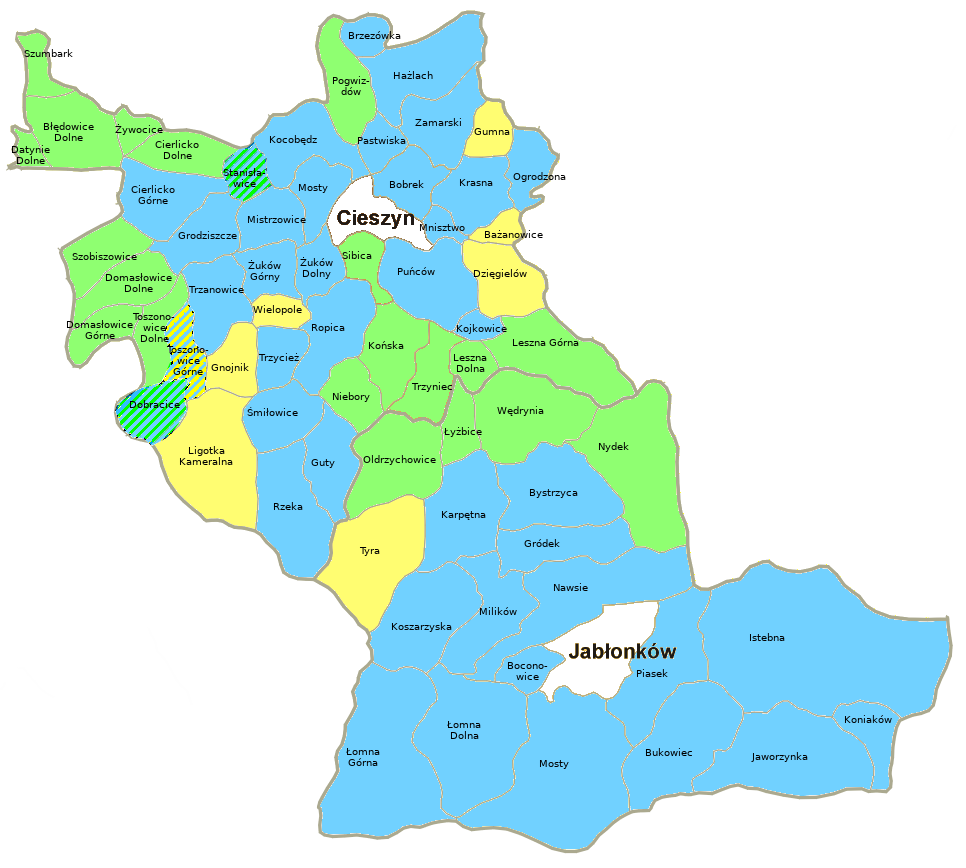 Austria-Hungary 1911 elections results, Walhbezirk 13, round 1